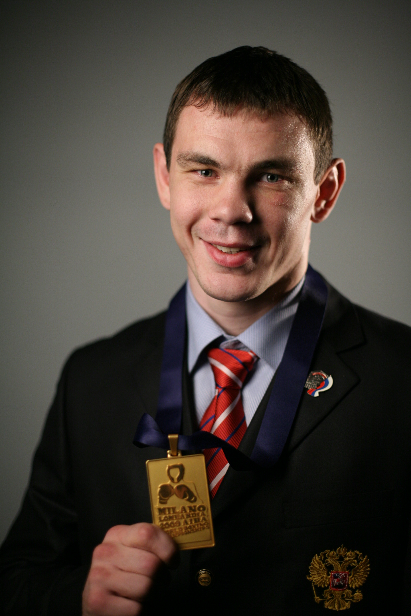 Yegor Mekhontsev.